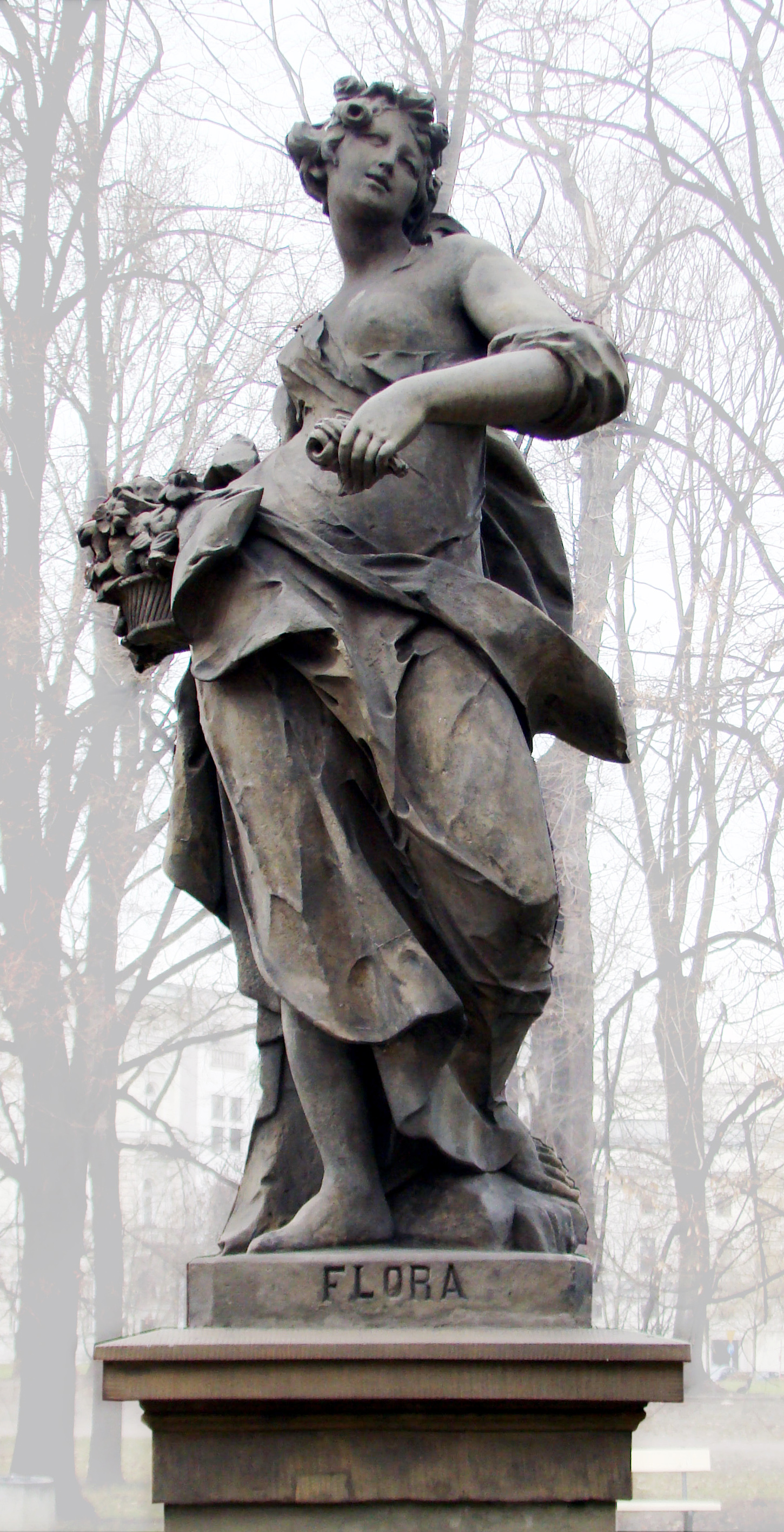 Flora - sculpture by Jan Jerzy Plersch